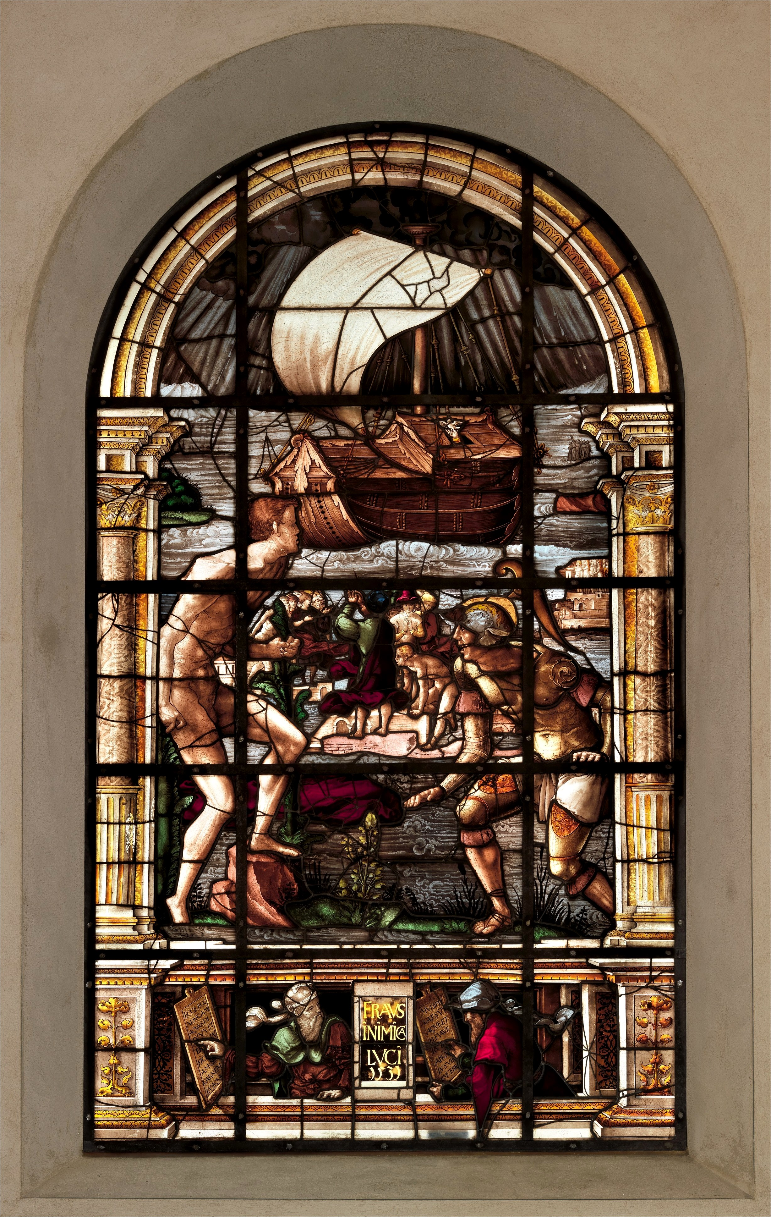 "The Deluge" by Valentin Bousch, French, 1531. Medium: Glass, painted and stained. Dimensions: 11 ft. 10 1/4 in. x 5 ft. 7 in. (3.61 x 1.7 m). Credit Line: Joseph Pulitzer Bequest, 1917. Accession Number: 17.40.2a–r. Metropolitan Museum of Art. This window, together with Moses Presenting the Tablets of the Law (also in the Museum's collection) and five others, decorated the choir of the Benedictine priory church of Saint-Firmin in Flavigny-sur-Moselle, Lorraine. It was commissioned by the prior, Wary de Lucy. Bousch rejected traditional compartmentalization and instead treated each composition like an enormous painted or carved retable within a trompe-l'oeil architectural frame.